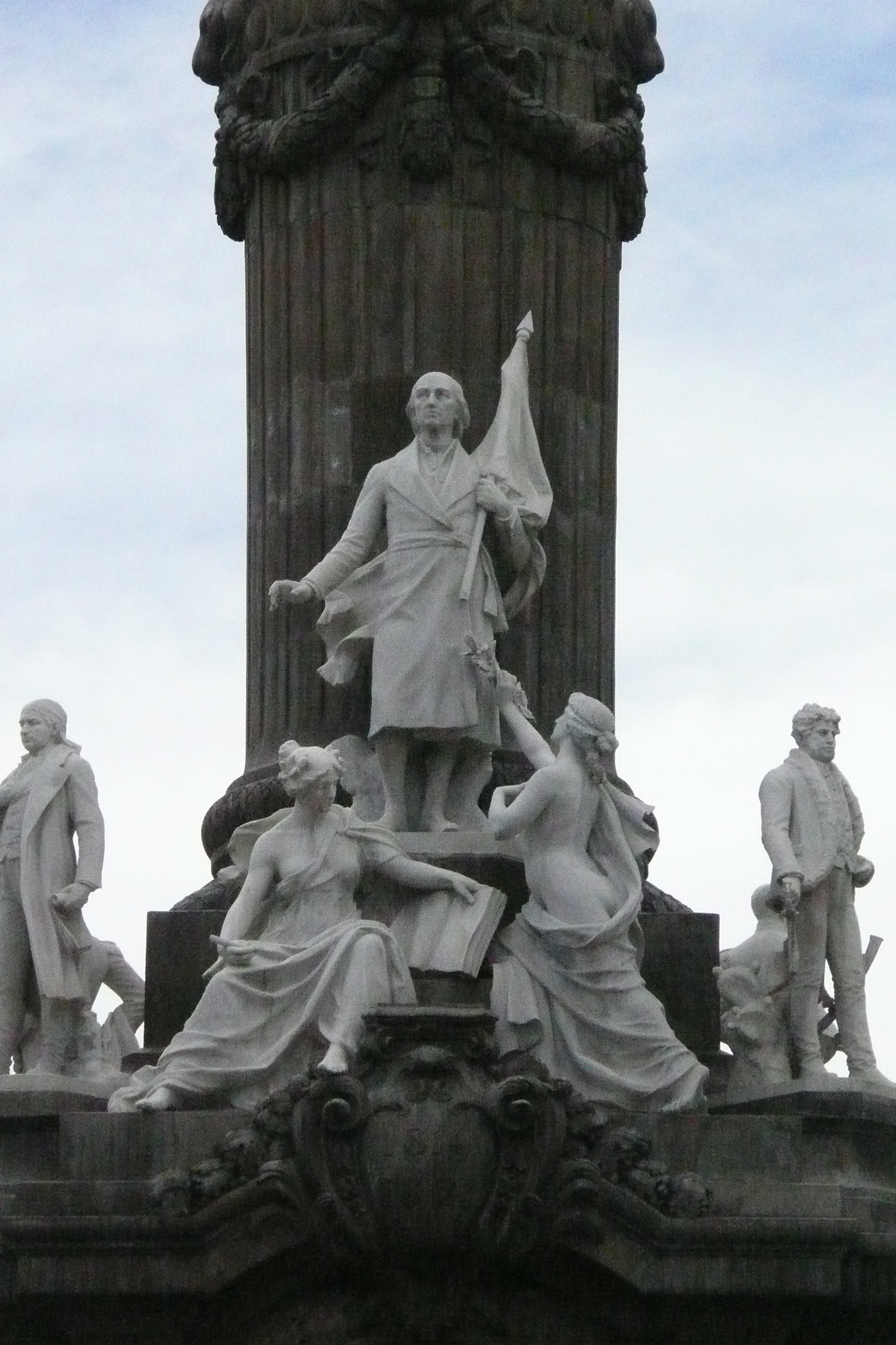 Apotheosis of the Father of the Nation on the Independence Monument, front view.